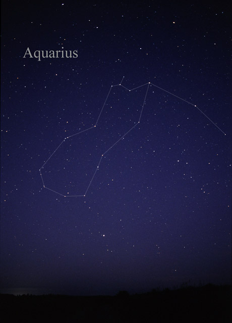 Photography of the constellation Aquarius, the water bearer